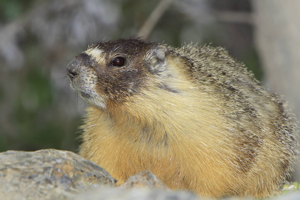 Female Yellow-bellied Marmot watching over her pups in Kamloops, BC. This one was resting in the shade close to her den entrance whilst her young pups were playing close by.